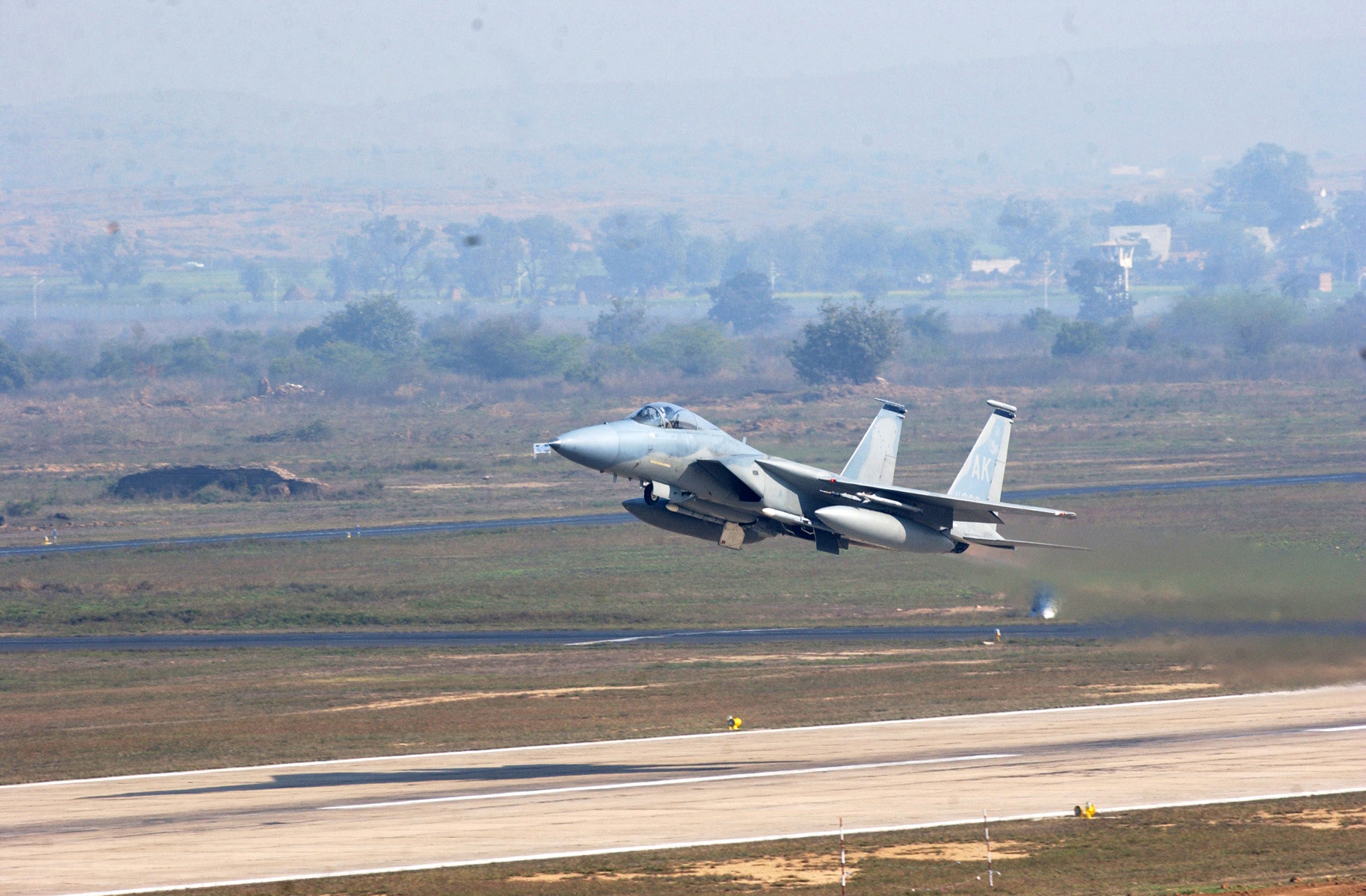 A USAF F-15C takes off from Gwalior Air Force Station, India, during Cope India 04, a bilateral figher exercise between the U.S. Air Force and the Indian Air Force. (photos by TSgt. Keith Brown)